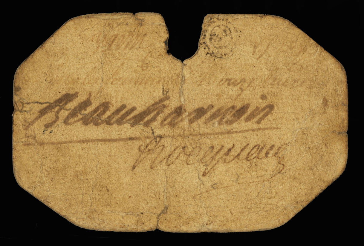 Colonial French Canada, New France, Card money, 12 livres (c. 1735)